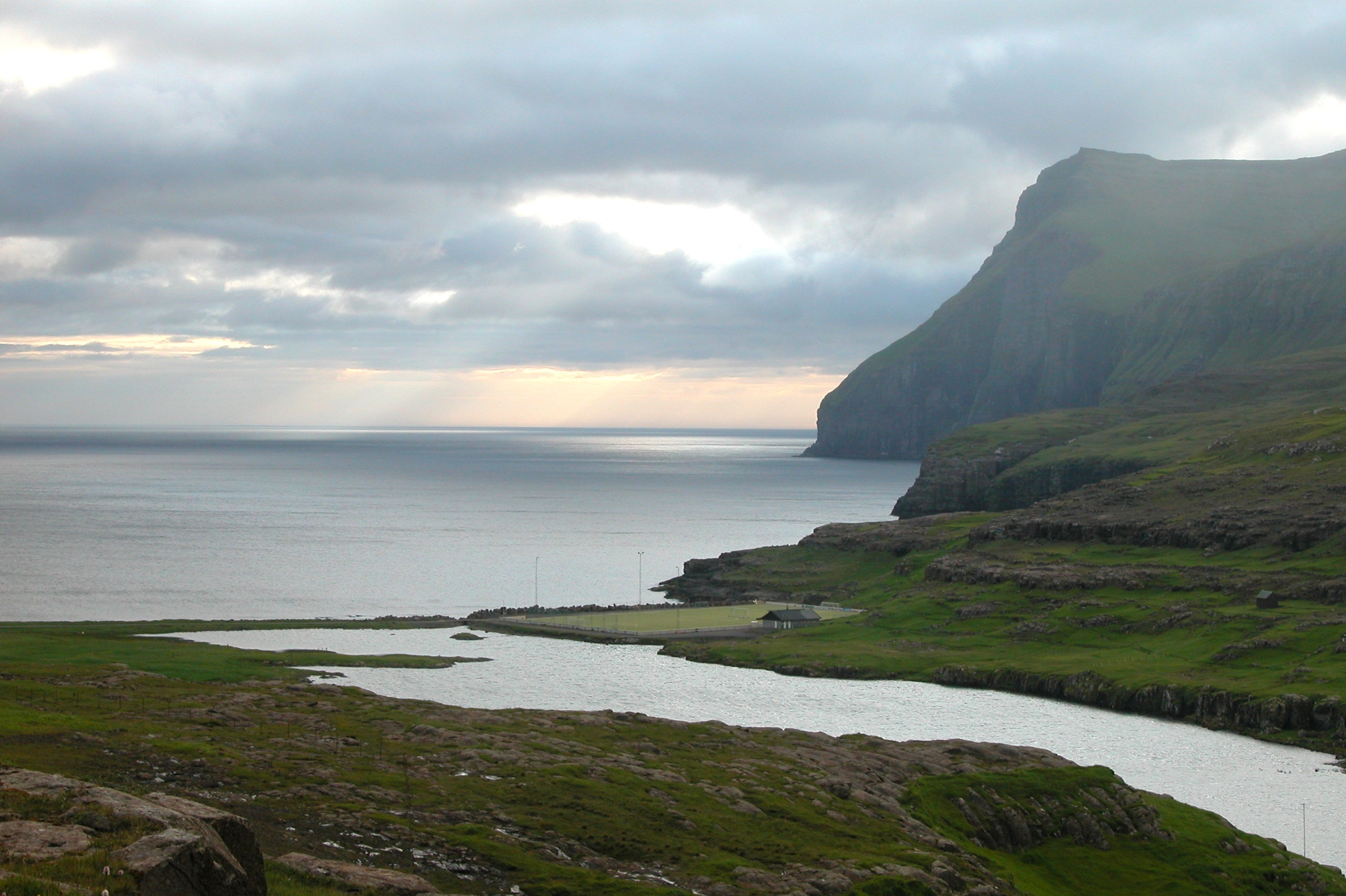 Isthmus at football field of Eiði in Eysturoy, Faroe Islands.